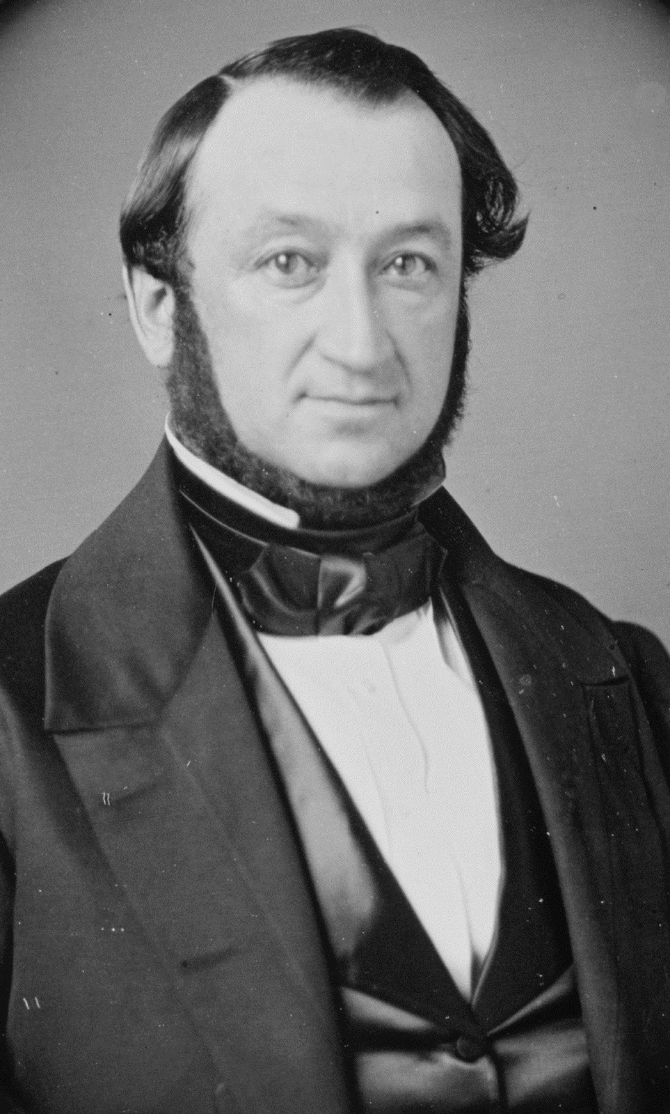 Alexander De Witt (Massachusetts Congressman)